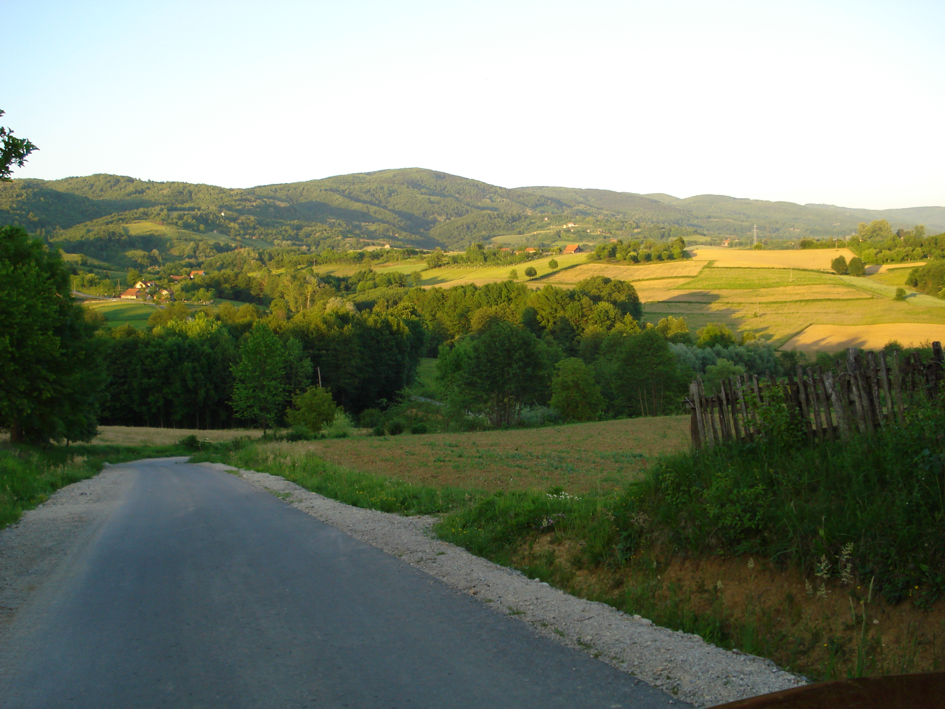 Village Palanciste, on mountain Kozara, RS, BiH, and peak Maslin Bair (691 m)